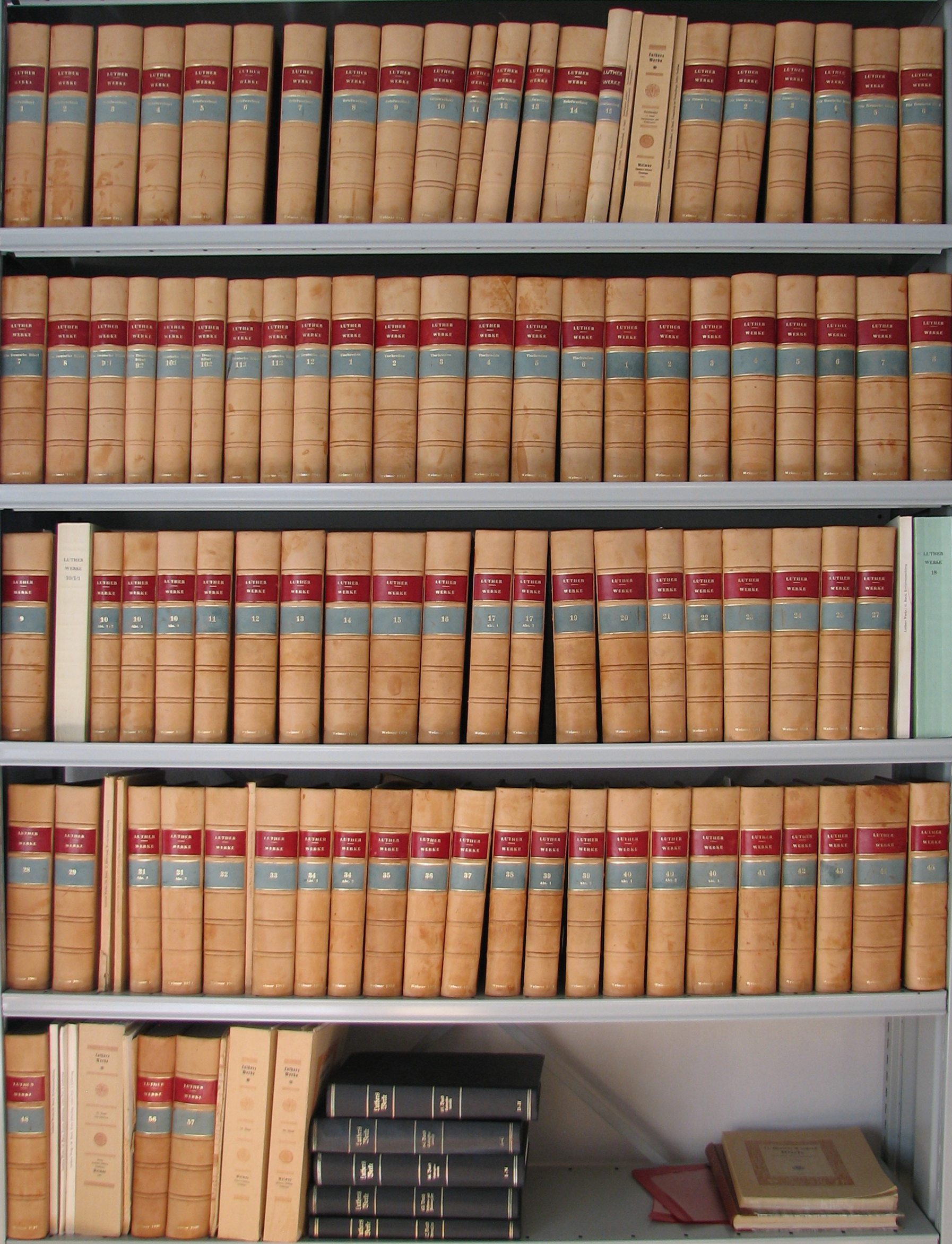 Luther's collected works in German, the Weimarische Ausgabe.